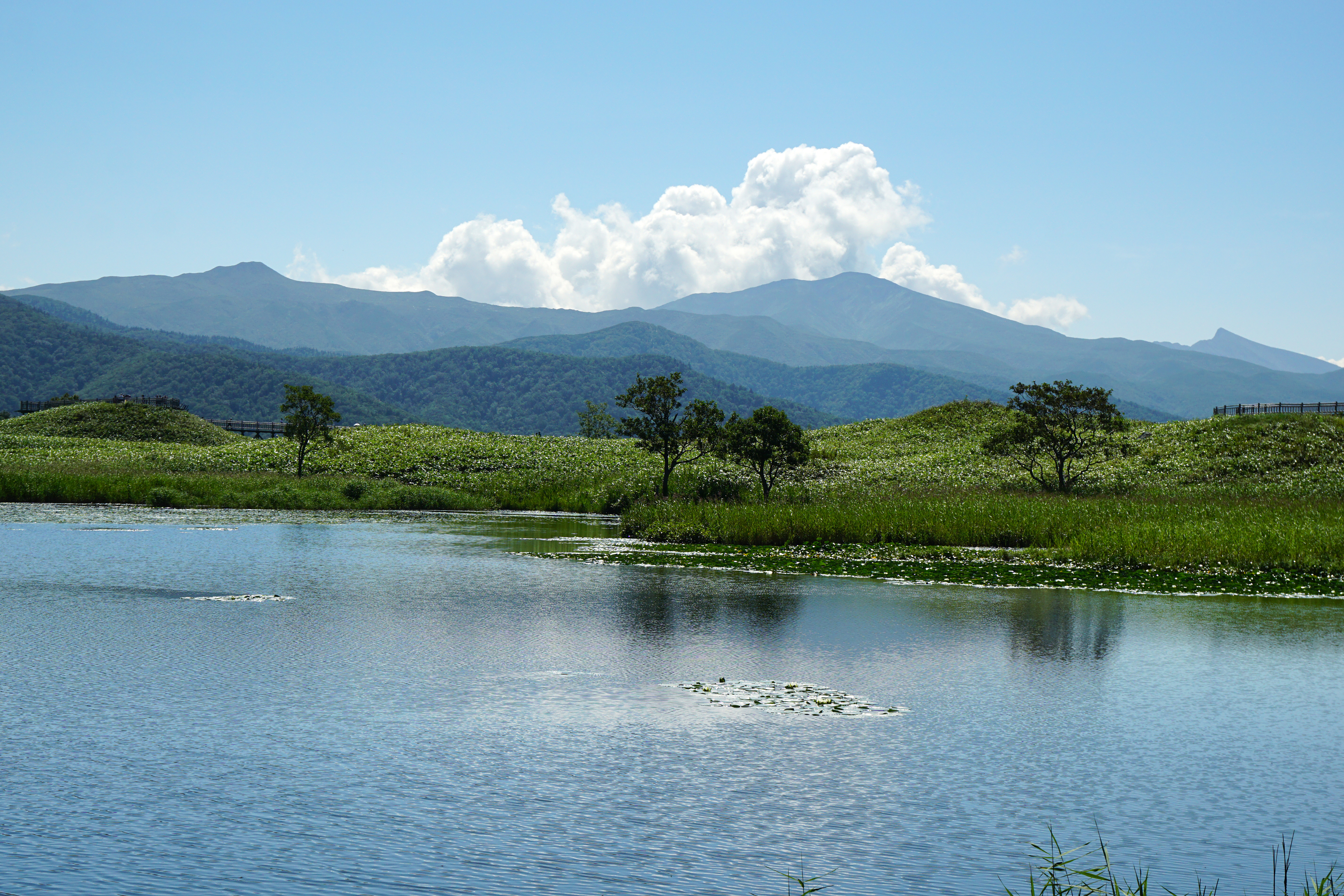 At Shiretoko Goko Lakes in Shari, Hokkaido prefecture, Japan. Mount Tenchō on the left. Mount Chinishibetsu on the right.